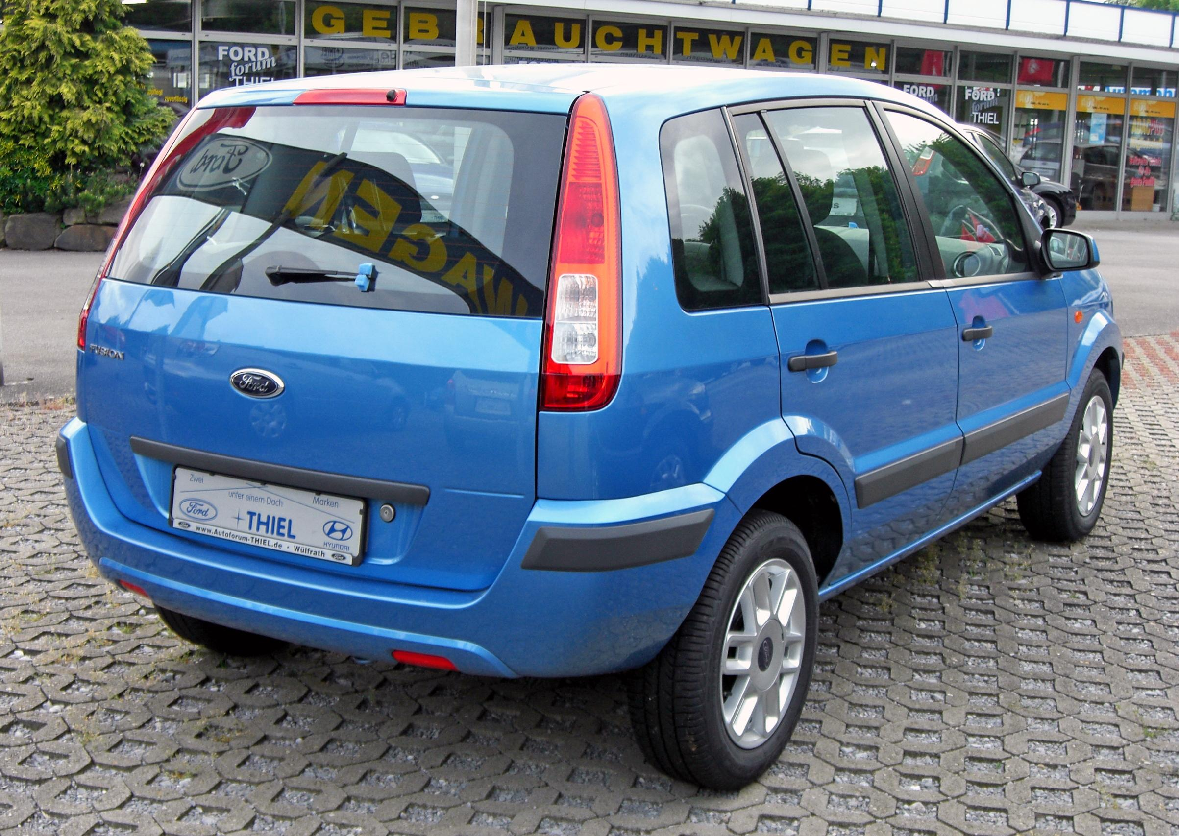 Ford Fusion Facelift